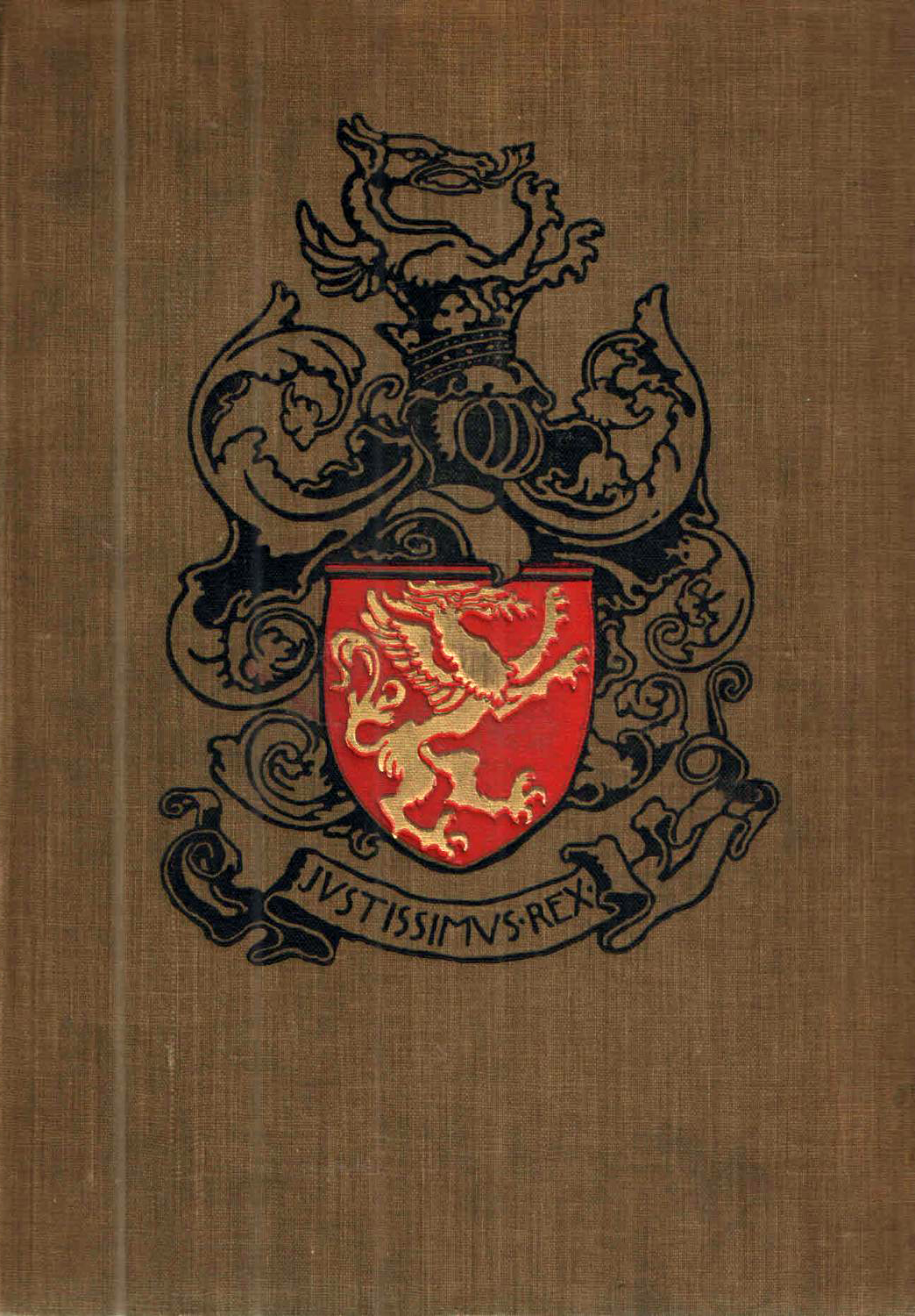 Scan of the front cover of the 1903 first edition of The Story of King Arthur and His Knights by Howard Pyle, published by Charles Scribner's Sons.